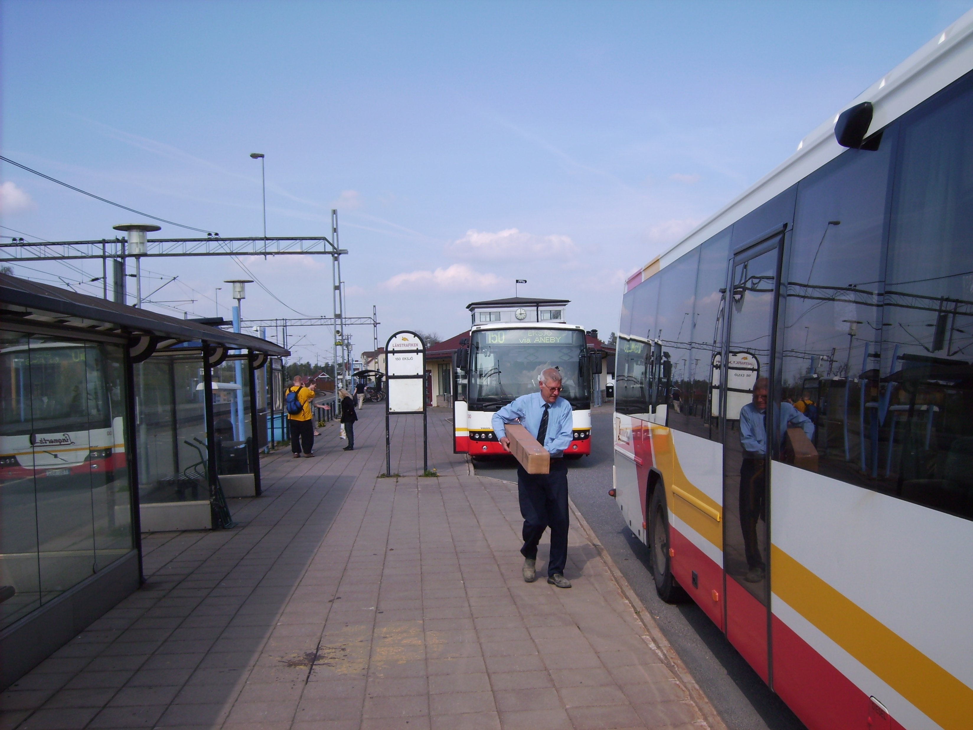 Photo by Harri Blomberg.